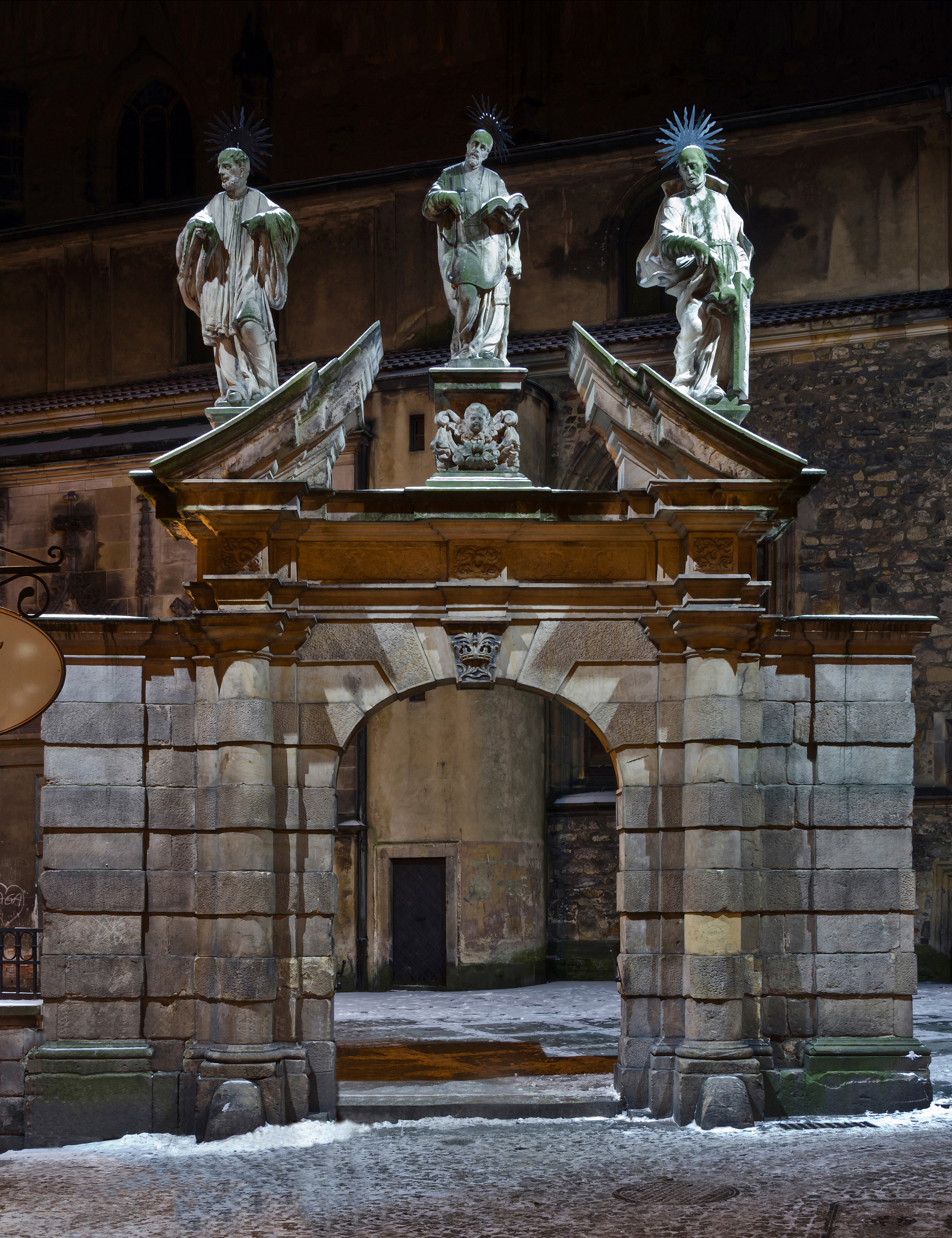 Baroque gate on Kościelny Square in Kłodzko